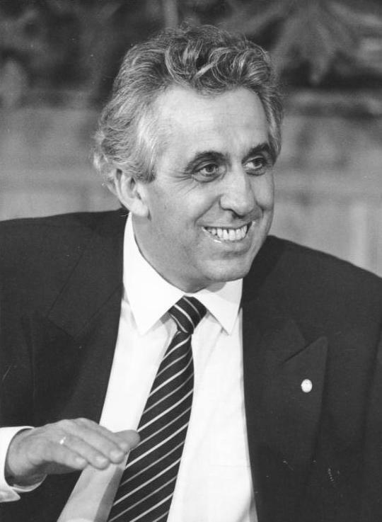 Cropped photograph of East German politician, Egon Krenz.